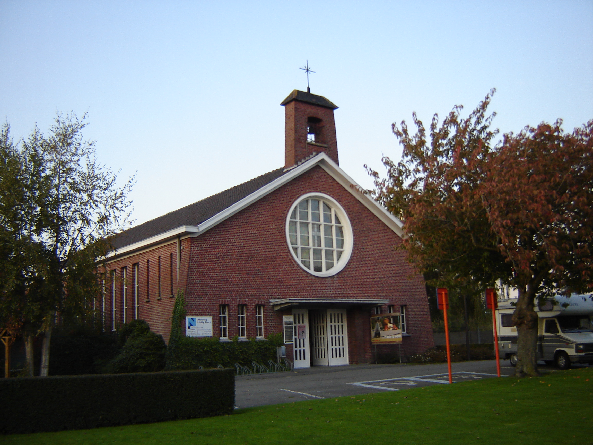 Church of Saint Joseph the Worker in Tielt. Tielt, West Flanders, Belgium